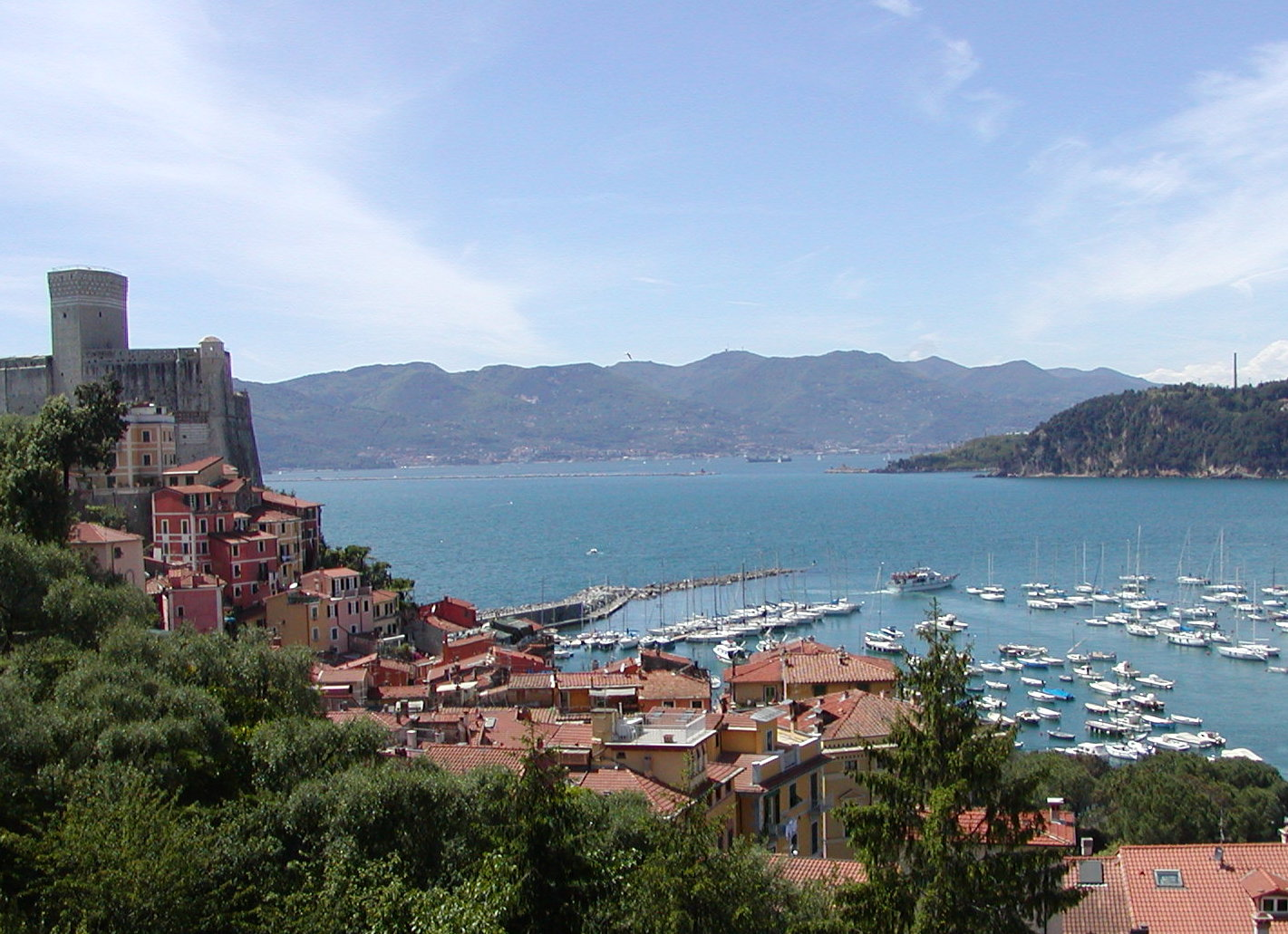 View on the Harbour of Lerici, Italy, with Castle